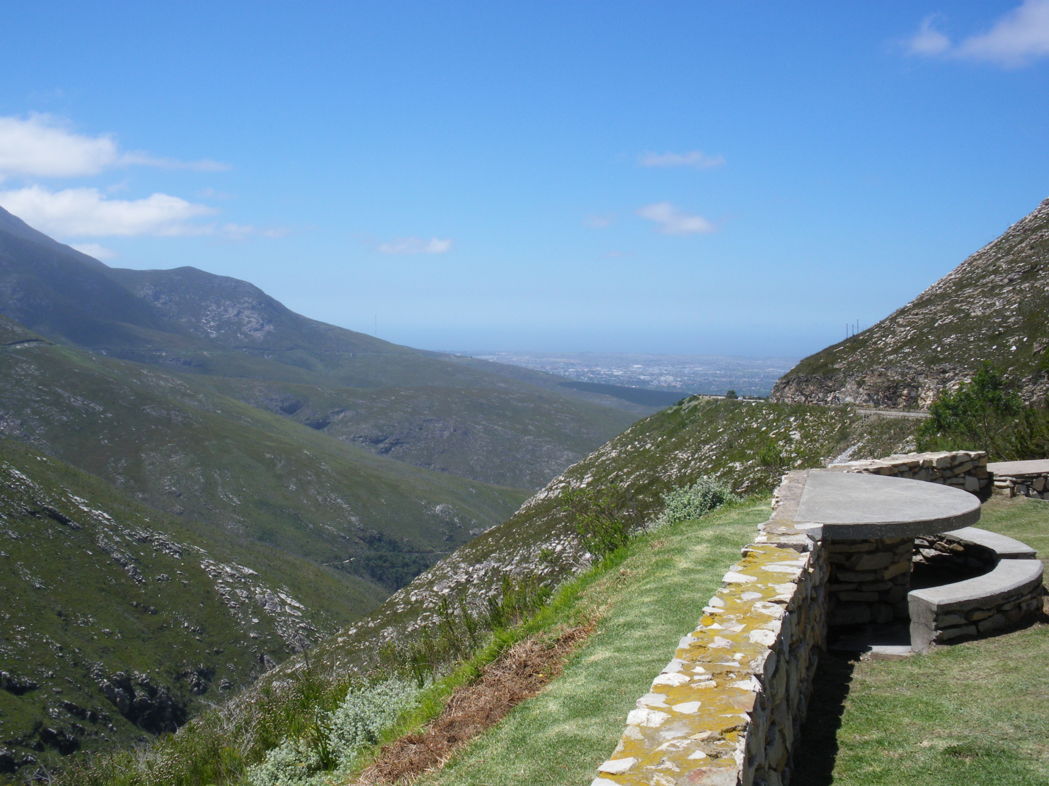 Outeniqua Pass, close to George, Western Cape Province, South Africa.